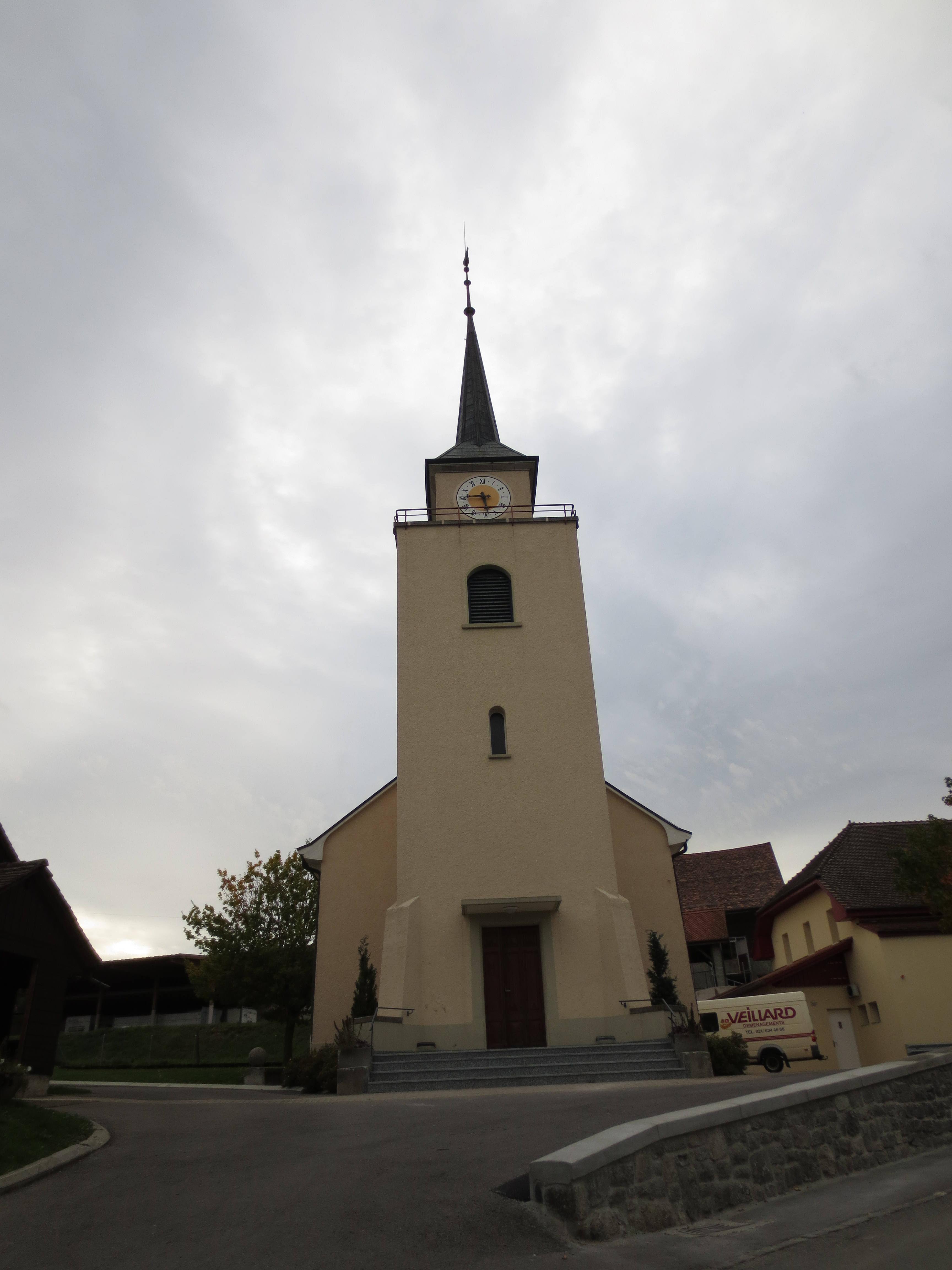 Corcelles-le-Jorat Church, Canton of Vaud, Switzerland